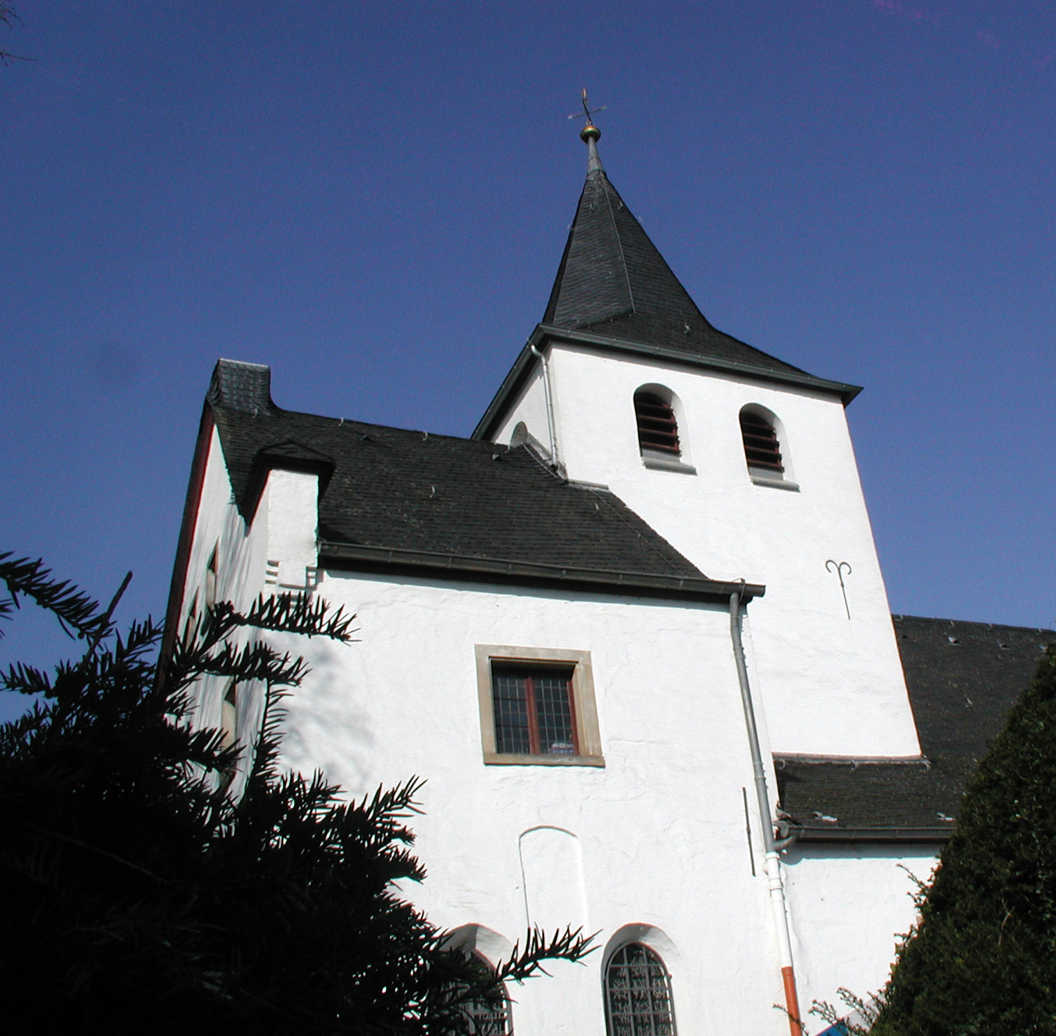 Rodenkirchen, Alt St. Maternus This is the photograph of an architectural monument. It is part of the list of cultural monuments of Köln, no. 938